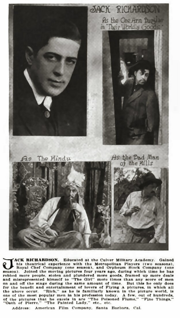 Actor Jack Richardson